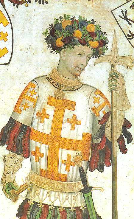 Manfred I of Saluzzo depicted as Godfrey of Bouillon, holding a long war hammer (polearm).label QS:Len,"Manfred I of Saluzzo depicted as Godfrey of Bouillon, holding a long war hammer (polearm)." label QS:Lfr,"Godefroy de Bouillon, en tenue de héraut portant une hallebarde (pollax, arme d’hast)."